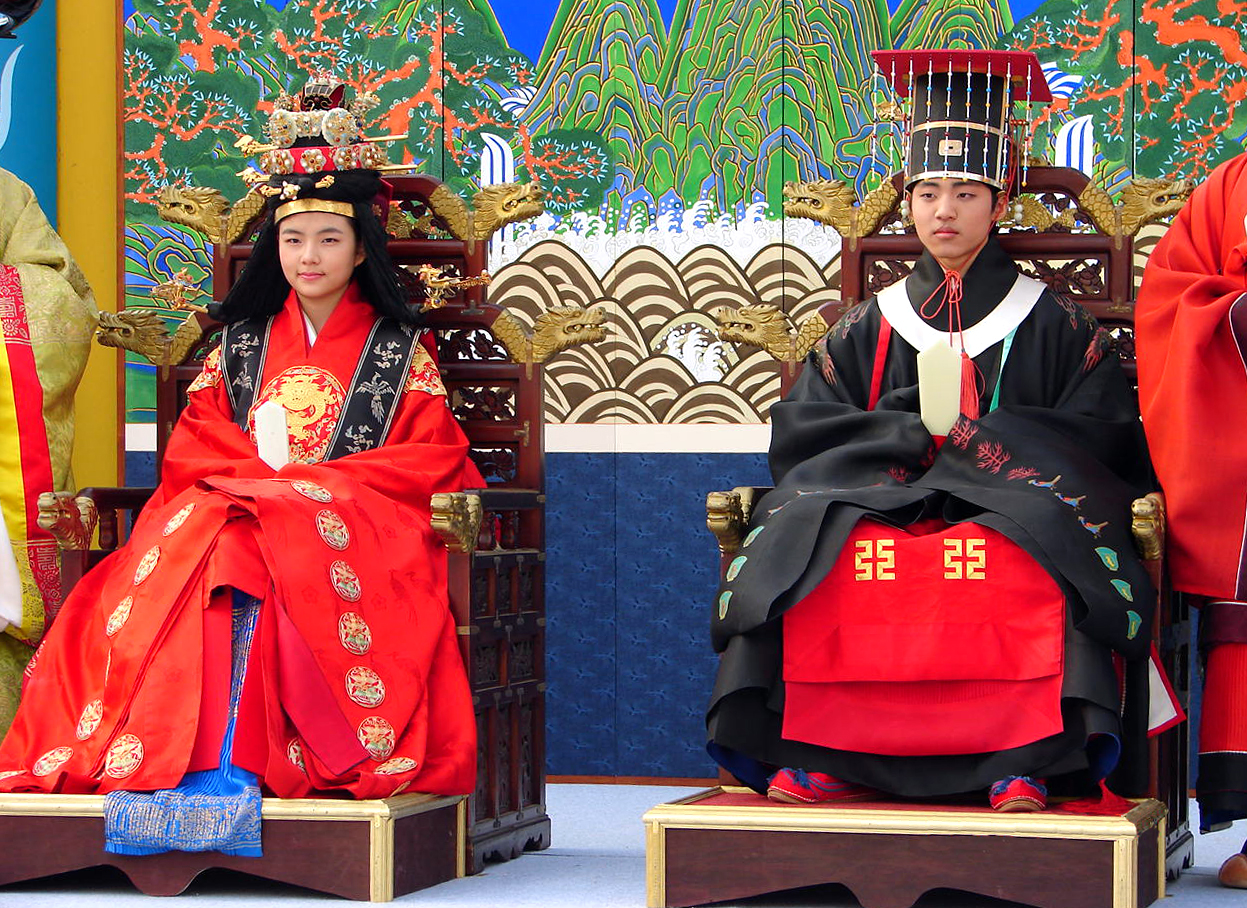 Royal Wedding Ceremony. Reenactment of King Gojong and Empress Myeongseong’s (Queen Min) Royal Wedding Ceremony that took place on the grounds of Unhyeon Palace on March 21, 1866. Unhyeon Palace (운현궁) is the former Korean royal residence of Prince Regent Daewon-gun, ruler of Korea during the Joseon Dynasty in the 19th century, and father of Emperor Gojong. This reenactment takes place in the spring and fall each year.